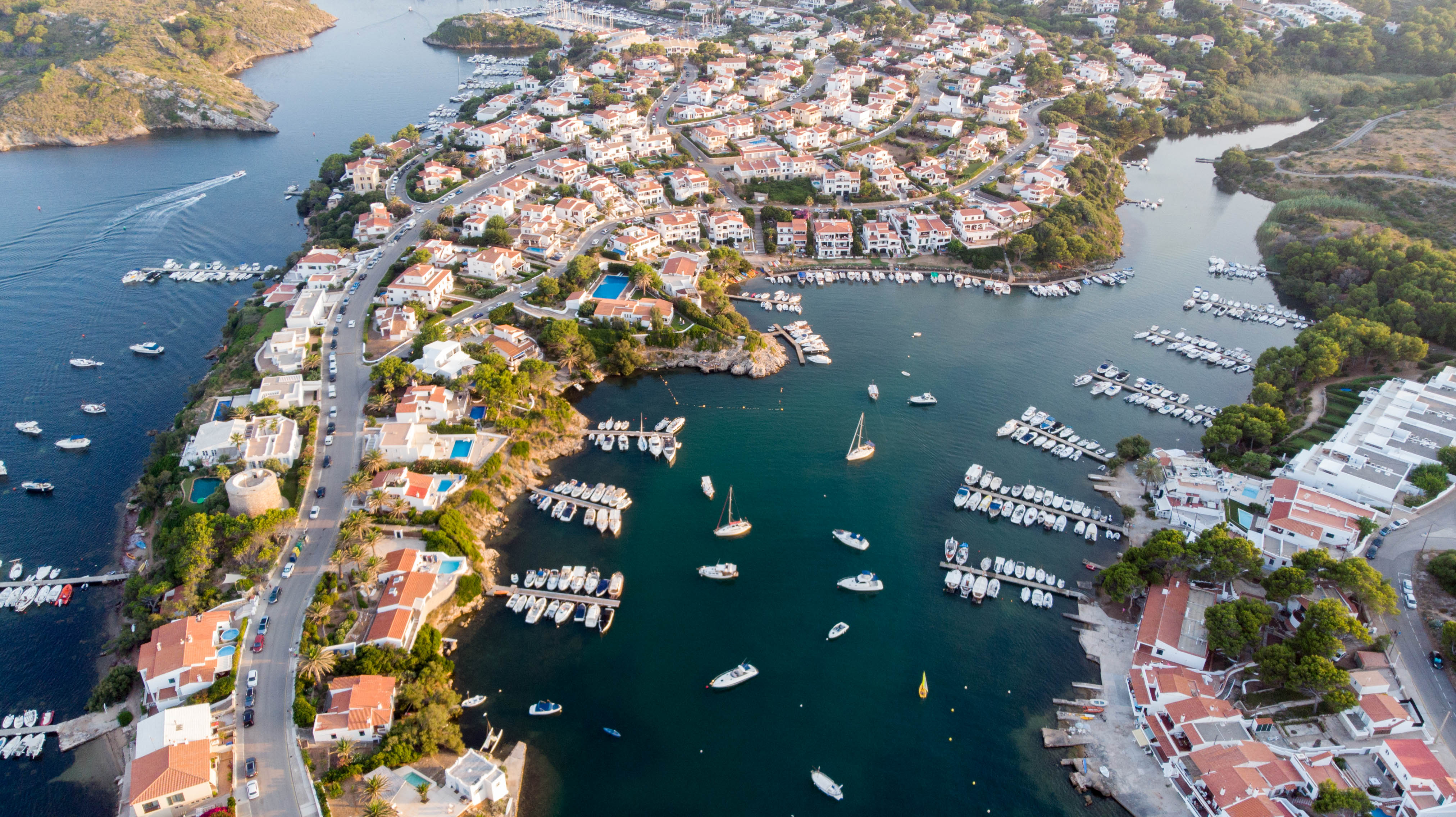 Es Mercadal, Menorca